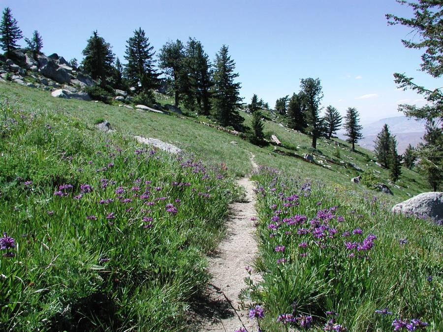 The Cottonwood Creek Trail at higher elevations in Boise National Forest, Idaho